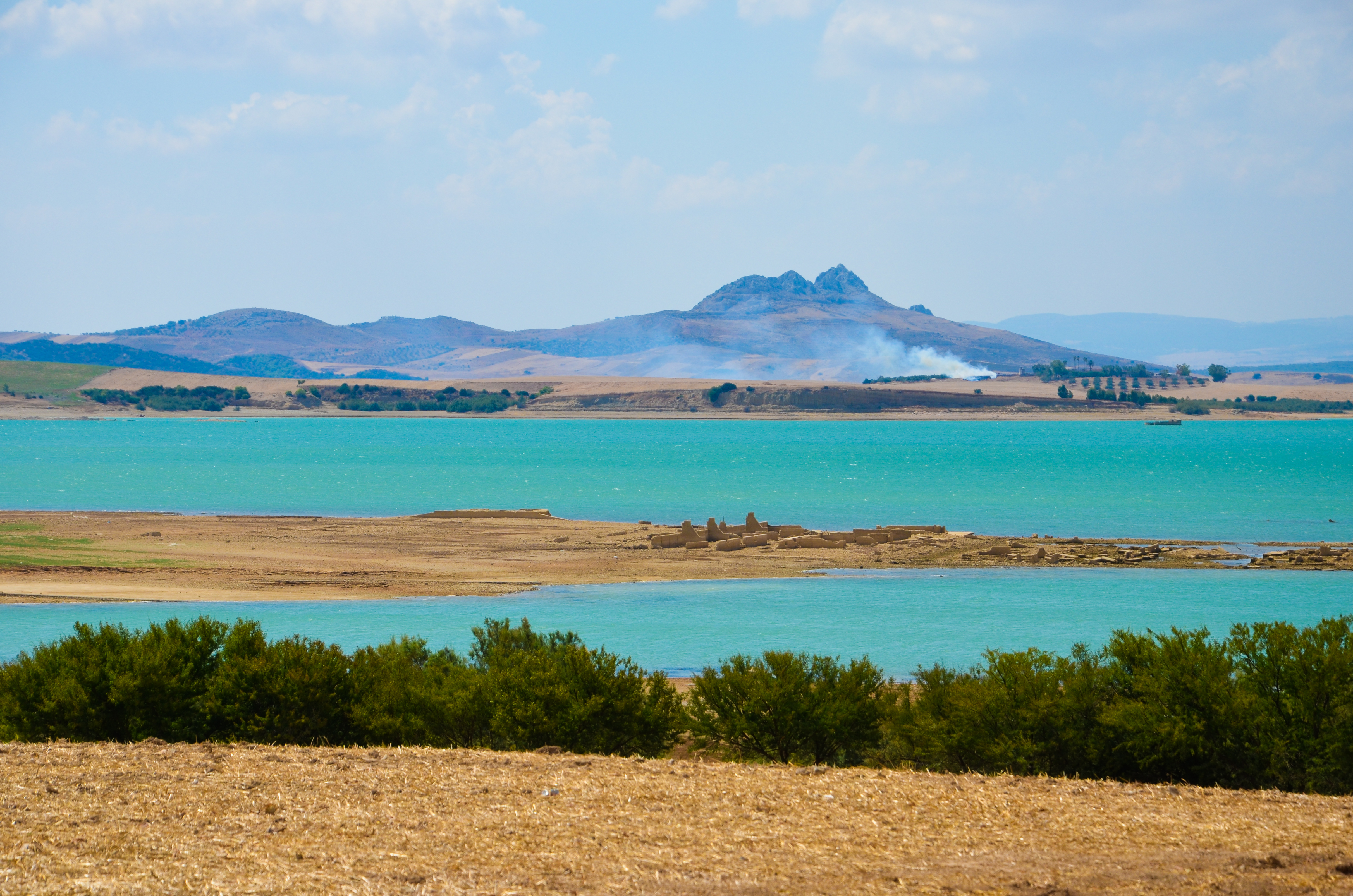 barrage oued zarga et la cimetière chrétienne